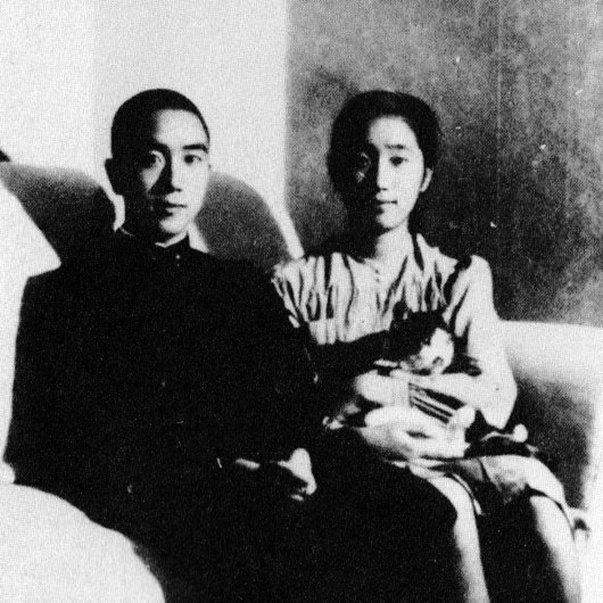 Writer Mishima Yukio at age 19 with his sister Mitsuko